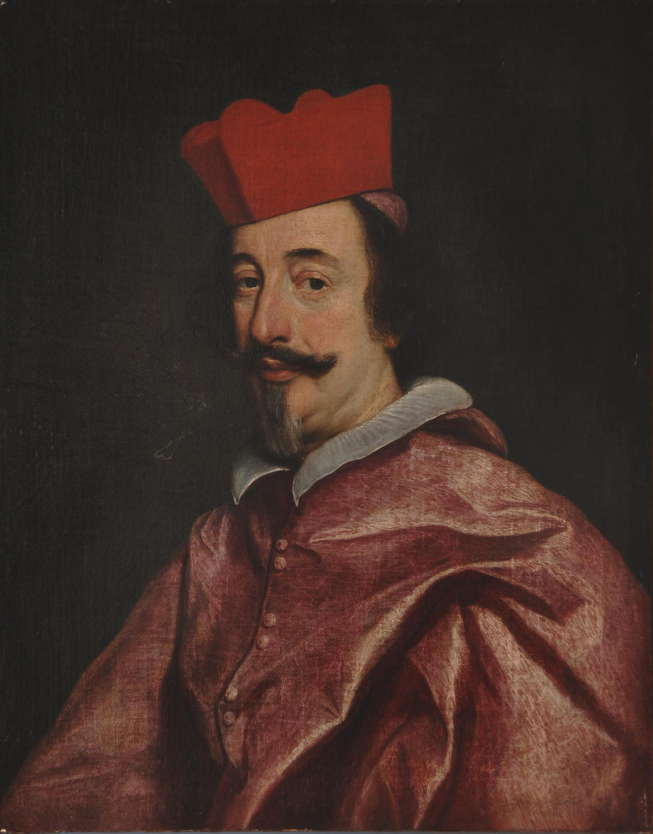 Cardinal Alfonso Litta oil on canvas 72 x 56 cm. 17th century